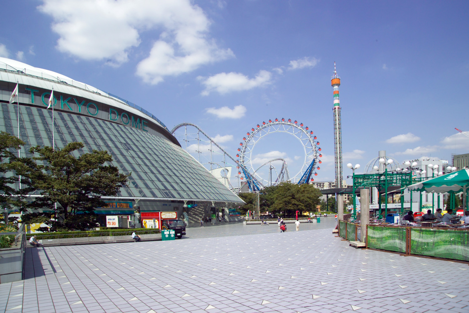 Tokyo Dome baseball stadium, adjacent to Suidobashi Station on JR Chuo-Sobu Line,Tokyo, Japan. I took the photo and release all my rights in this file to the public domain. Individuals and organizations retain rights to their images in the file.